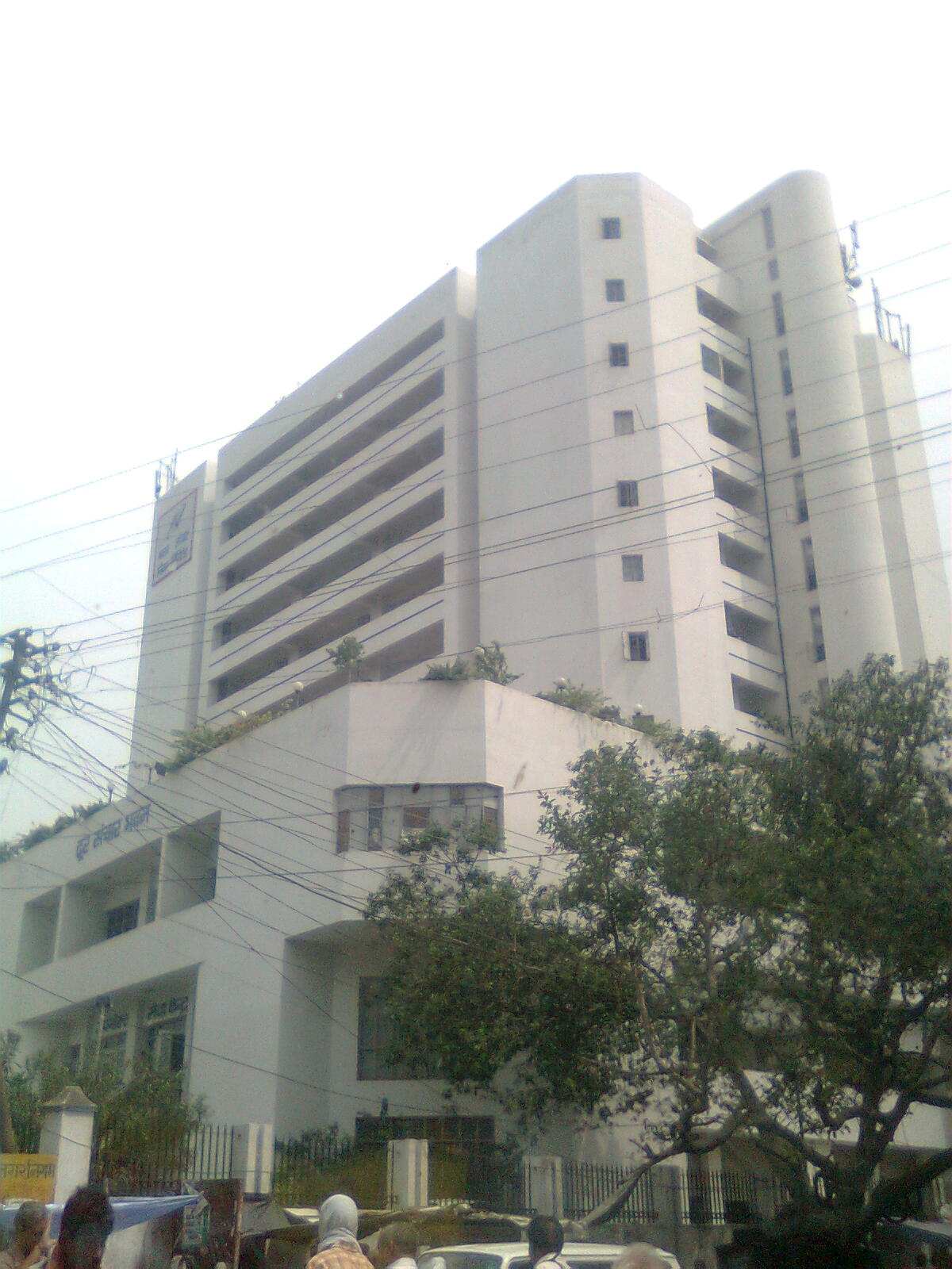 This is a Governmental Company Office